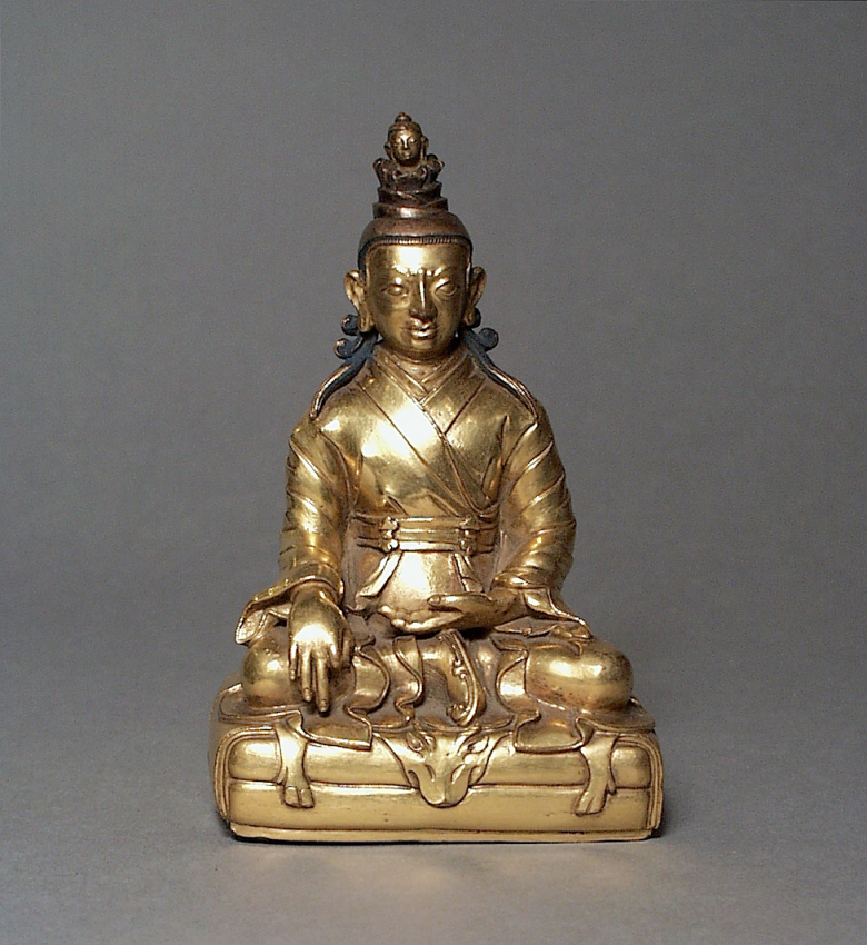 Central Tibet, 17th century Sculpture Gilt brass with traces of paint Gift of Mr. and Mrs. Werner G. Scharff (M.80.229) South and Southeast Asian Art